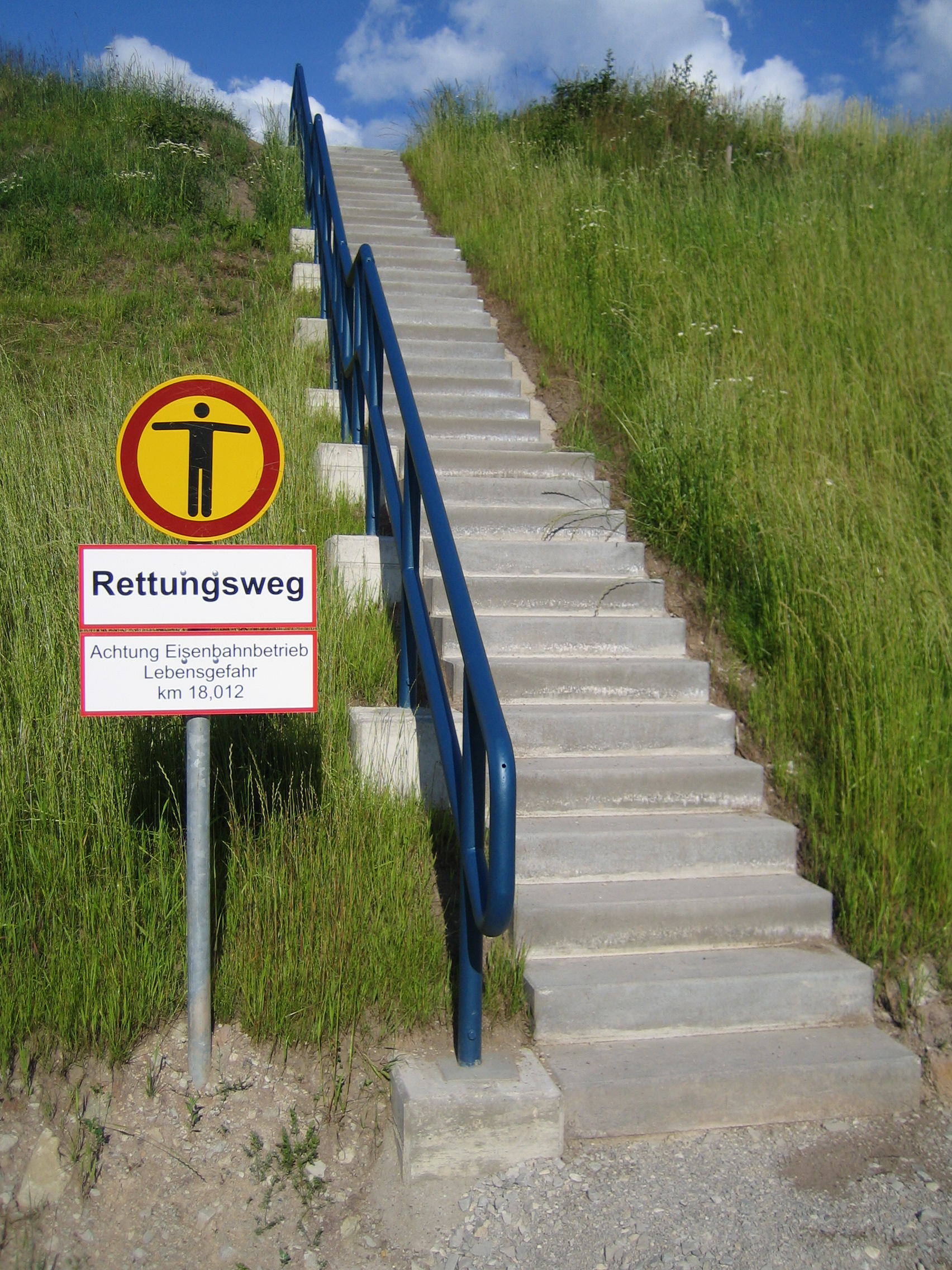 Escape stairs on a mound at the Nuremberg–Munich high-speed track near Nuremberg, Germany. Further stairs go down on the other side to the actual railway line. The sign in front says "Escape route. / Warning: Train operations. Danger to life. km 18,012 (from Nuremberg Central station)"